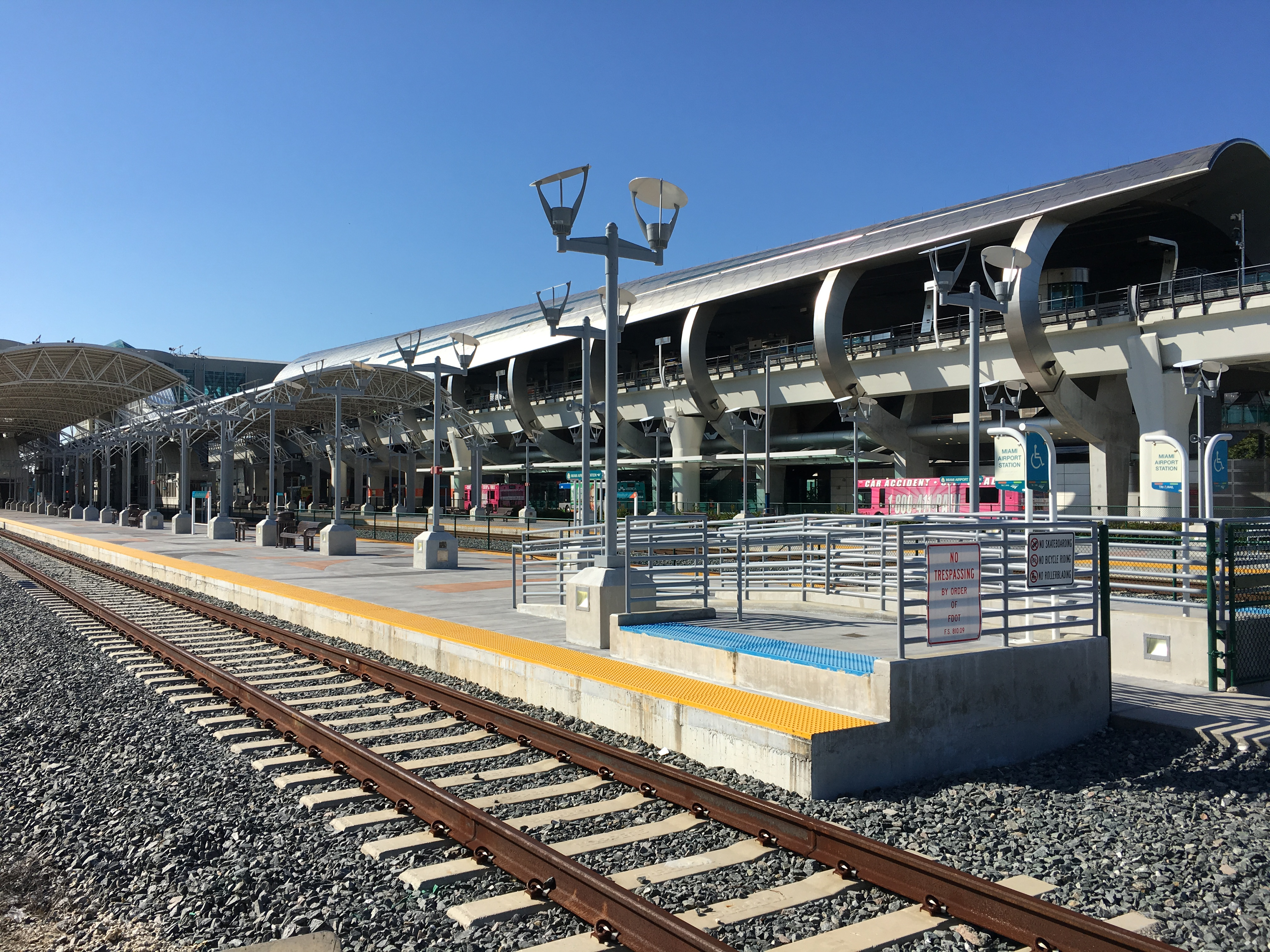 Still no Amtrak service at the new Miami Airport Station.